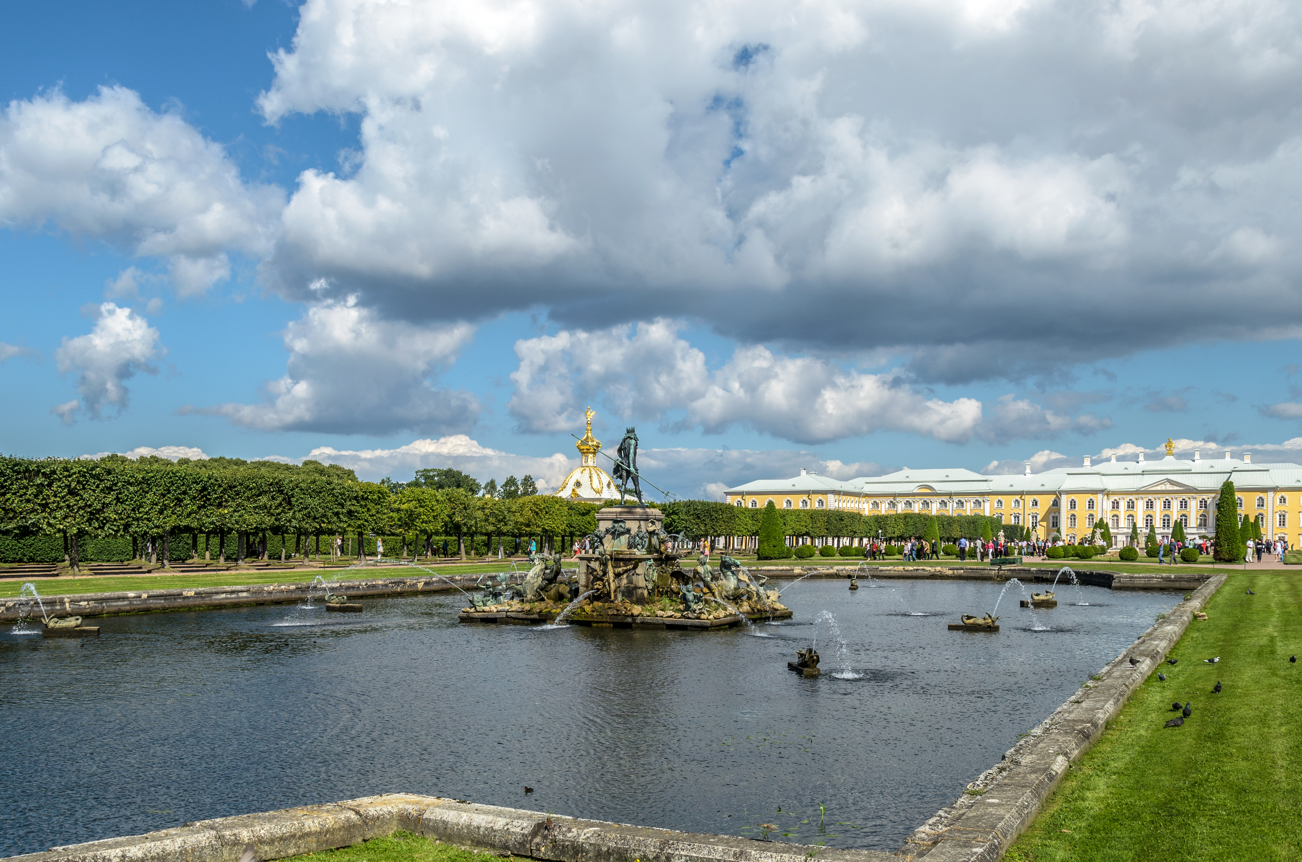 Neptune Fountain at Upper Garden of Peterhof